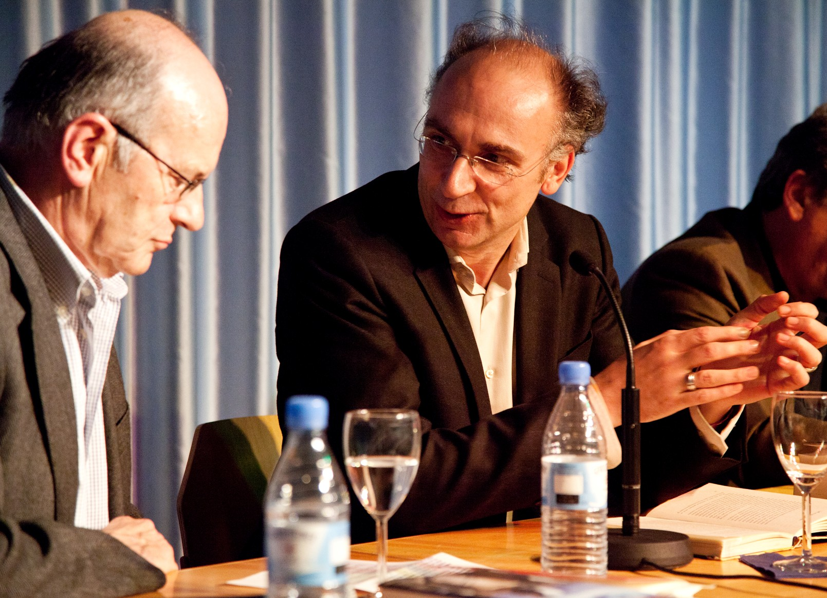 Dimitré Dinev & Klaus Servene